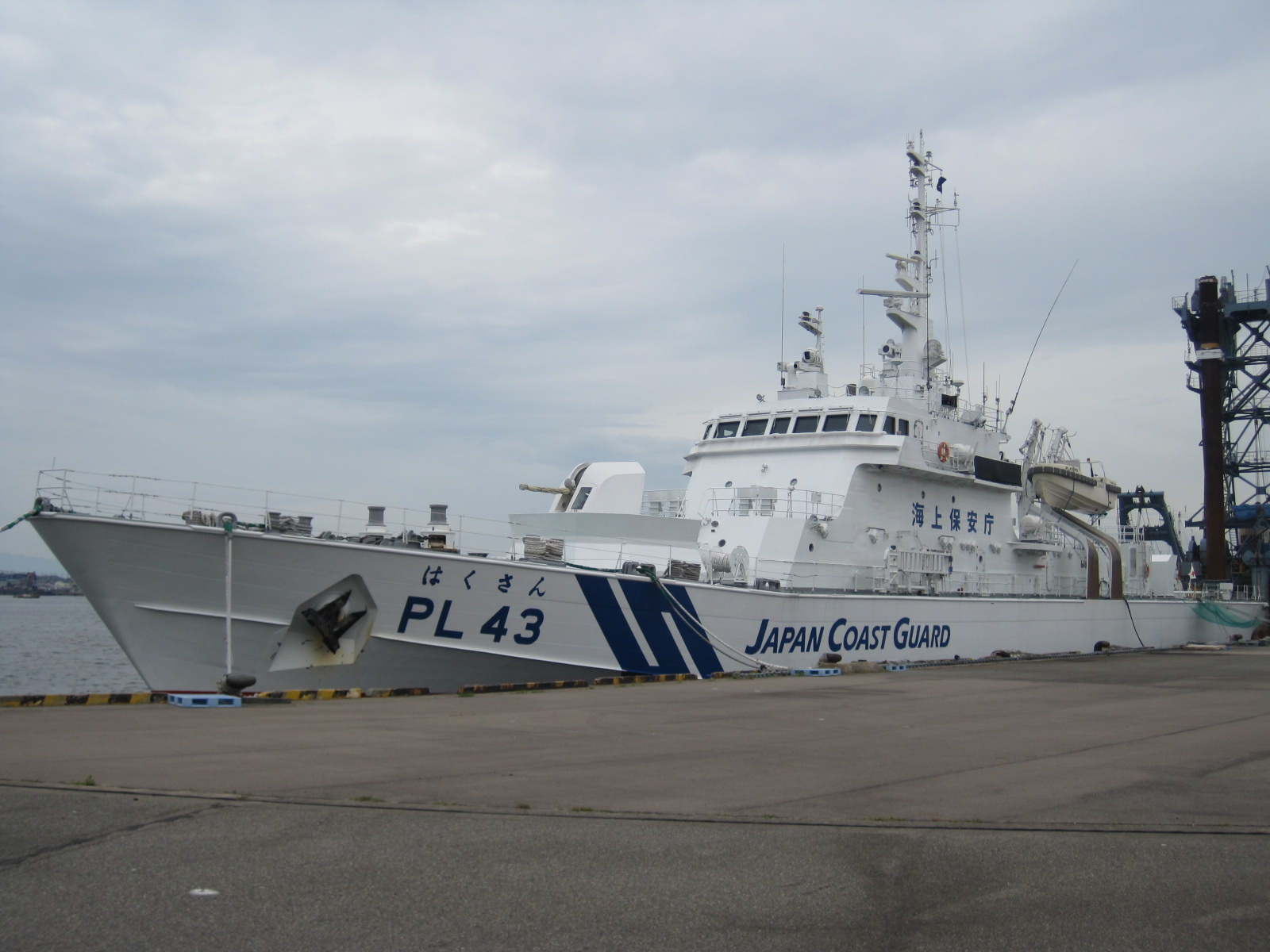 Hakusan, Patrol vessel of Japan Coast Guard (PL43)